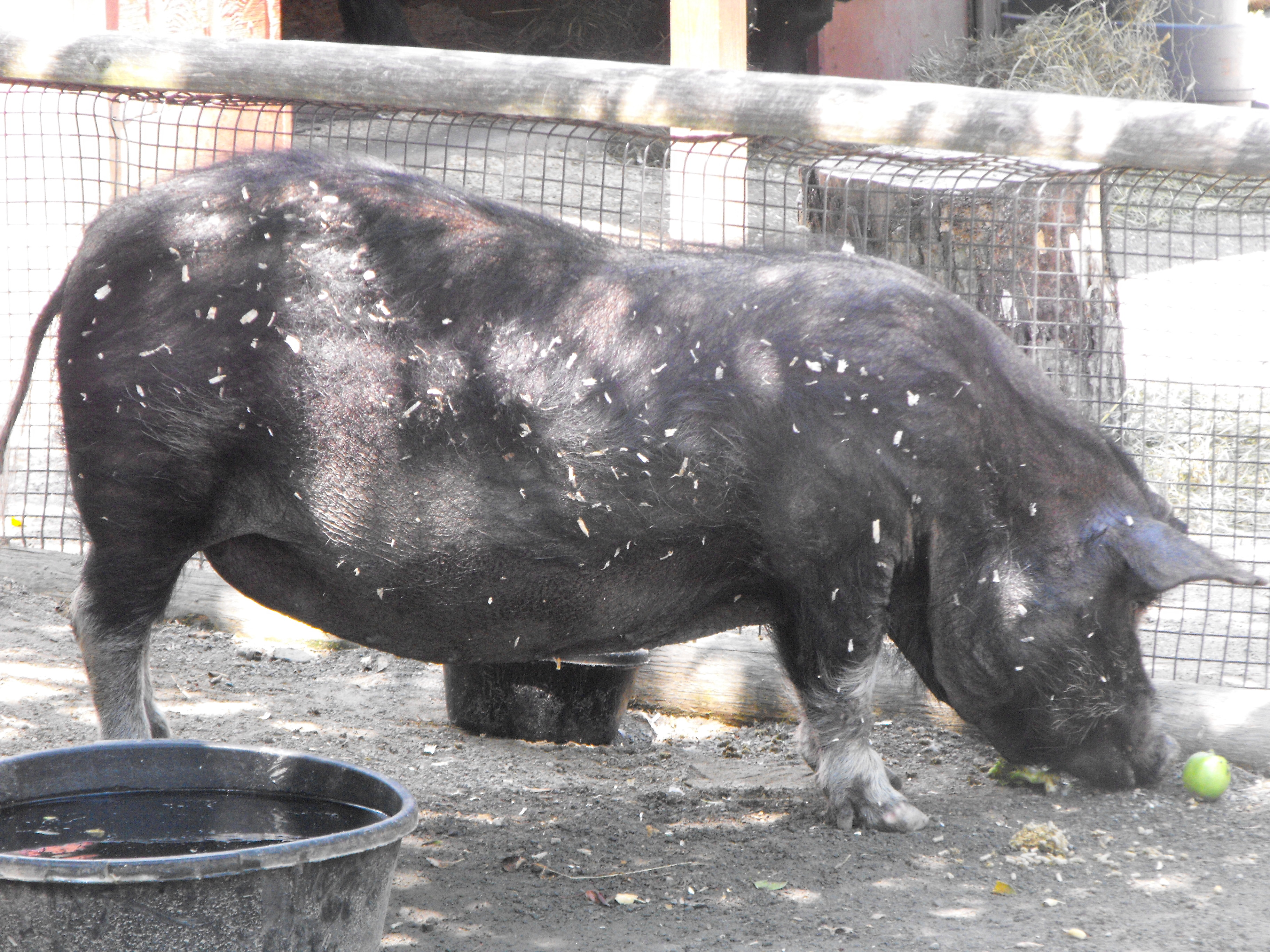 A Guinea Hog at the Roger Williams Park Zoo, in Providence, RI